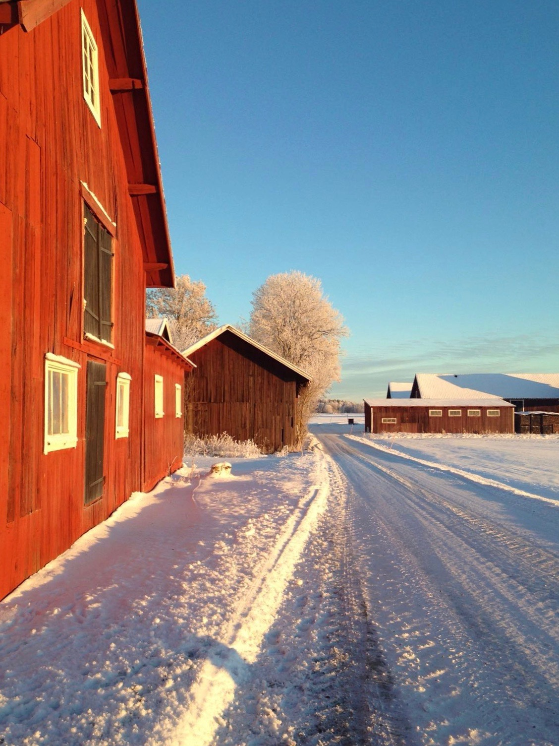 A wintry scene in Norrbäck, Västmanland, January 2016.